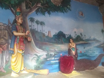 Avinashiappar temple, Avinashi, Coimbatore district, Tamil Nadu, India